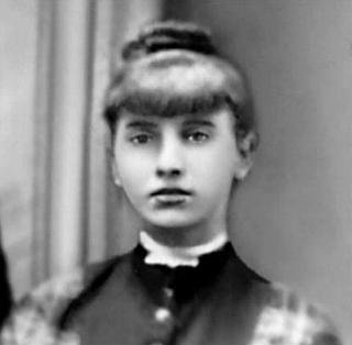 Nancy Sephrona Huff (survivor of the Mountain Meadows massacre)